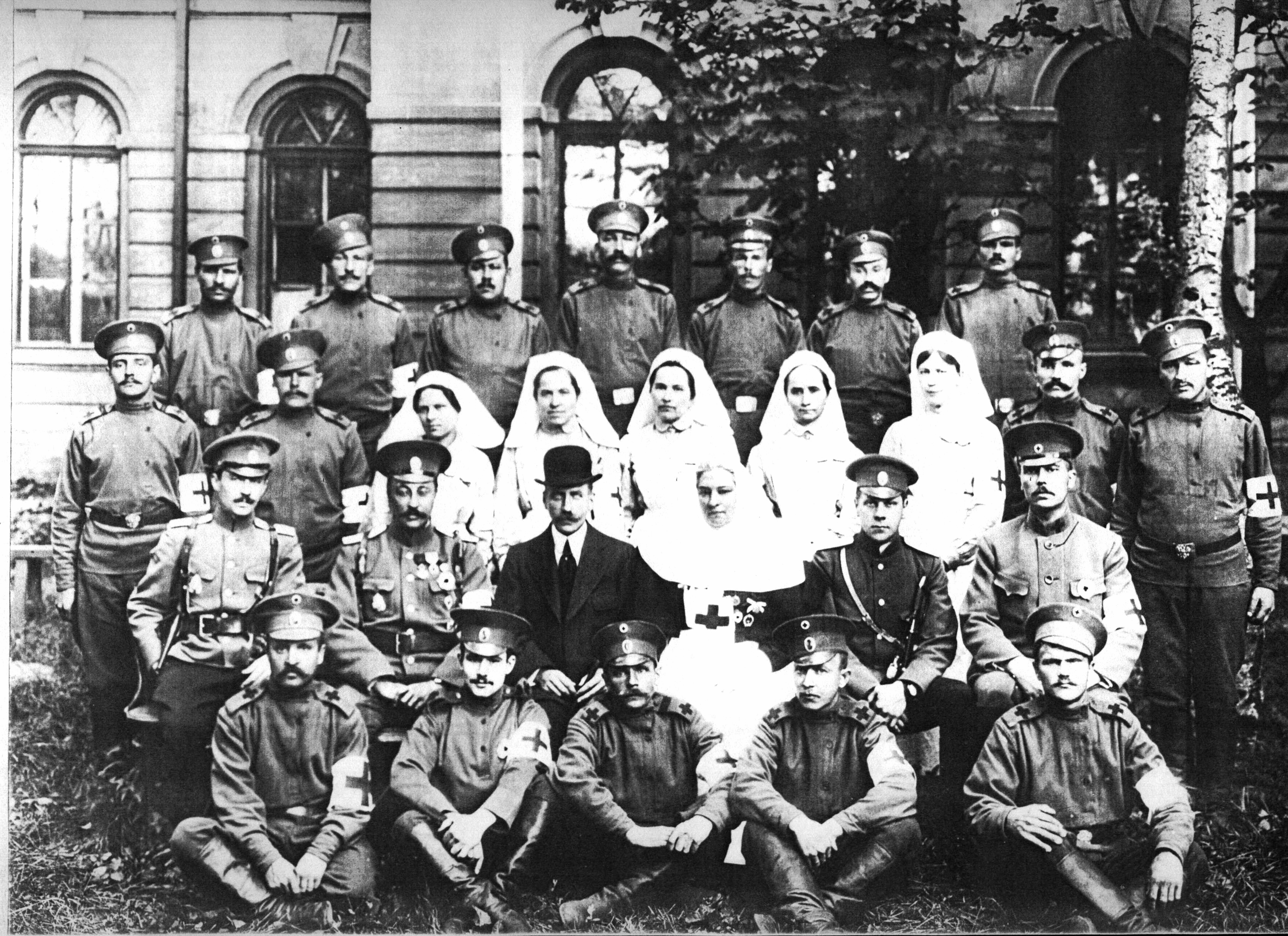 Photograph of some members of the field ambulance organized by Dr Cresson to help the Russian soldiers on the german theatre.